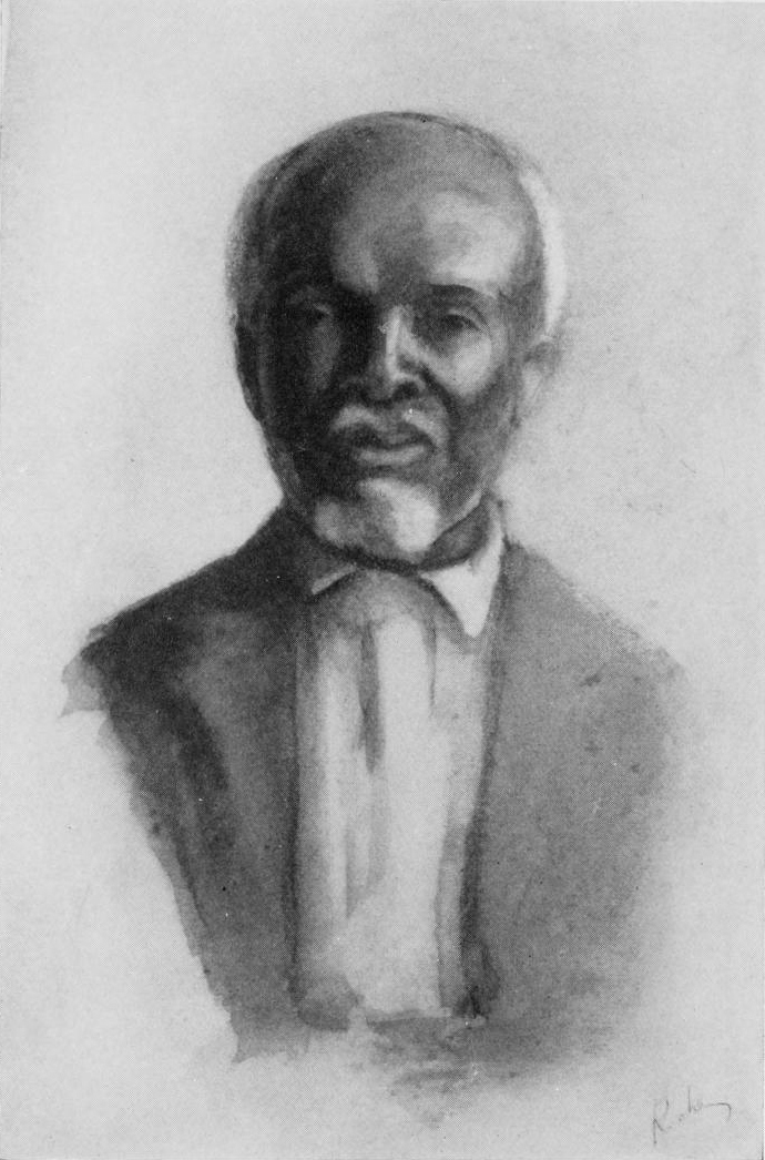 A portrait of the last remaining survivor of the Atlantic slave trade between Africa and the United States.